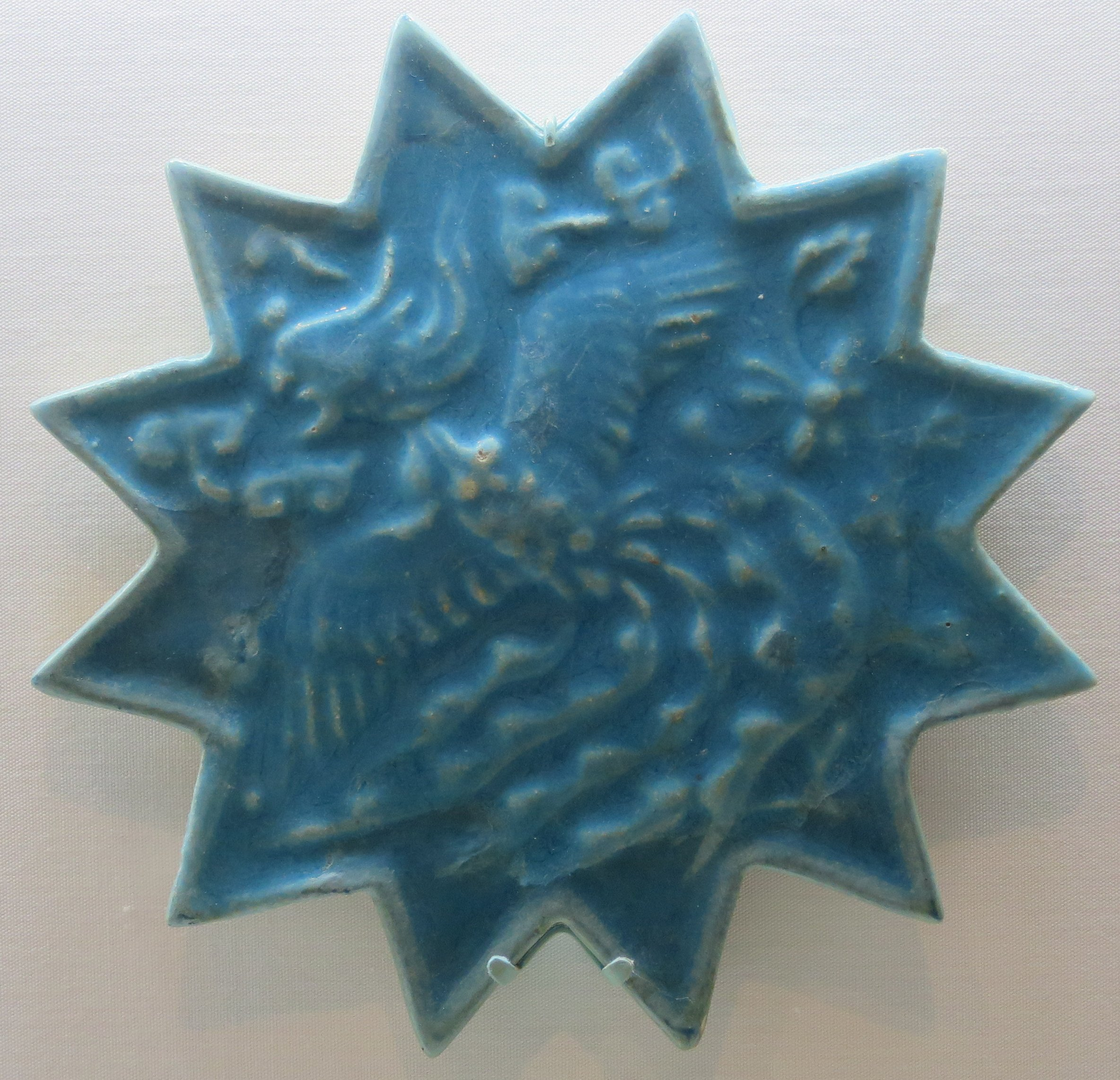 Star tile with phoenix from Iran, Ilkhanid period, late 13th-early 14th century, molded stonepaste with monochrome glaze, long-term loan to the Honolulu Museum of Art by Doris Duke Foundation for Islamic Art (accession 48.110)